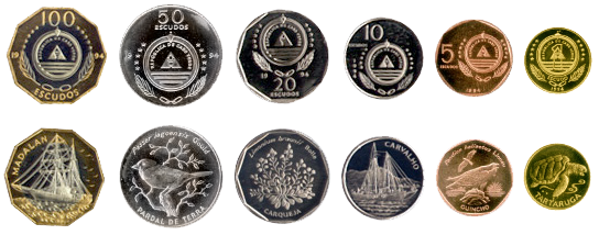 Cape Verde coins